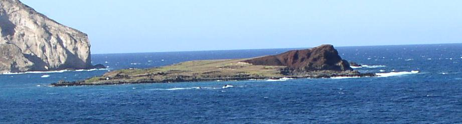 Kāohikaipu, just off Makapuu Point. Near island of Oahu in Hawaii.